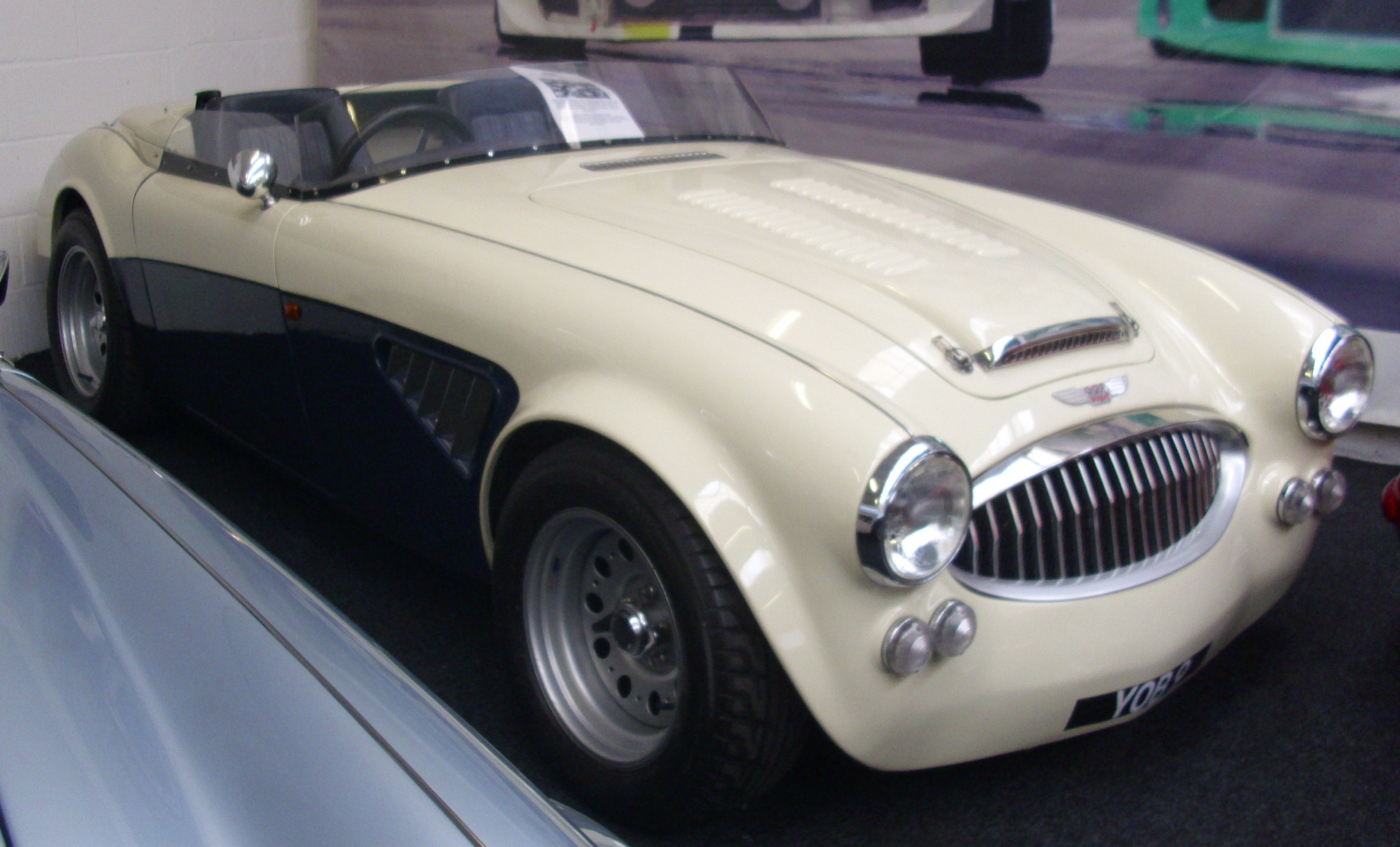 HMC Lightweight 2000